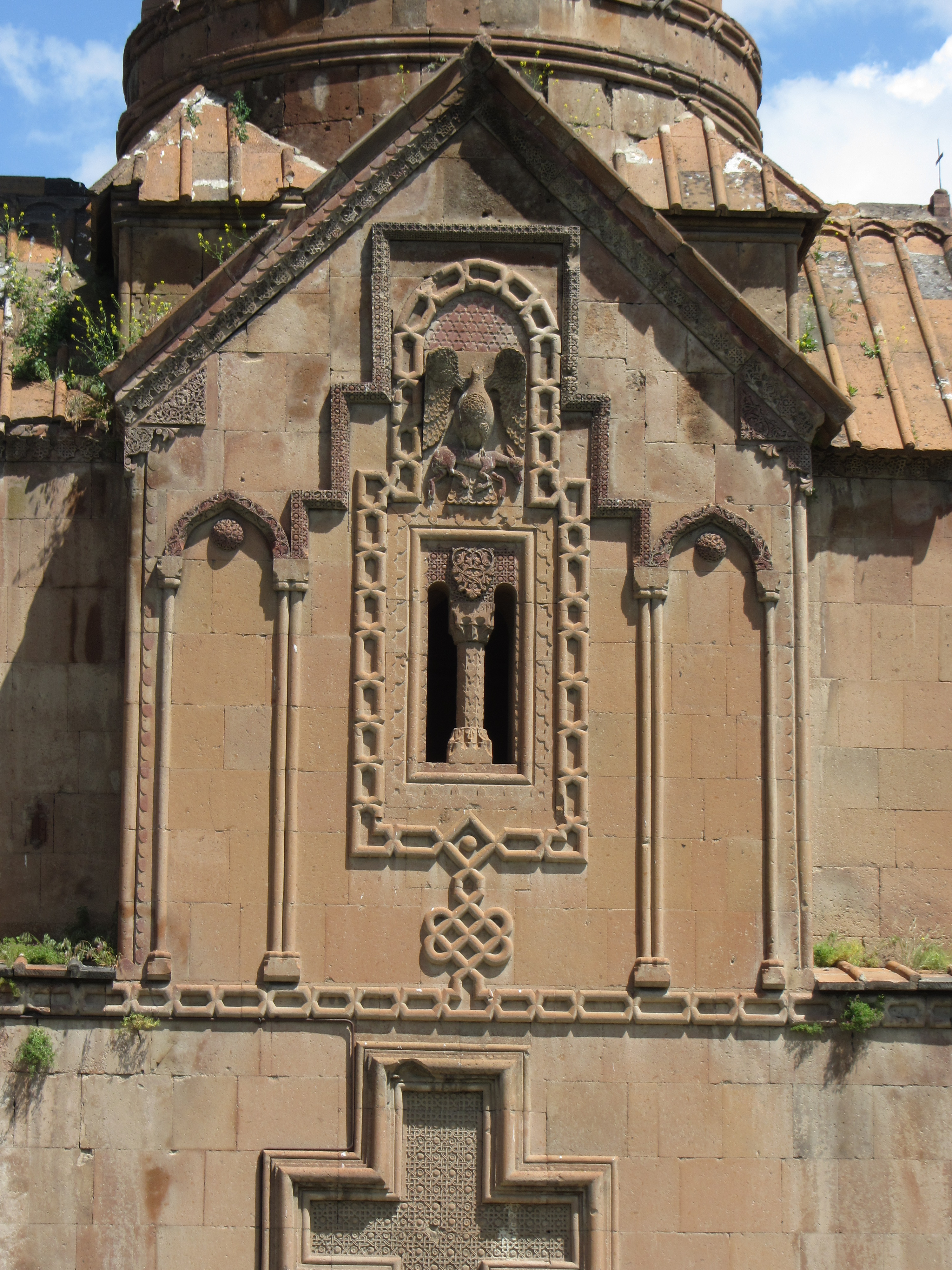 Surb Astvatsatsin church also known as Yeghvard Church, 1301, Yeghvard, Kotayk province, Armenia 4/7